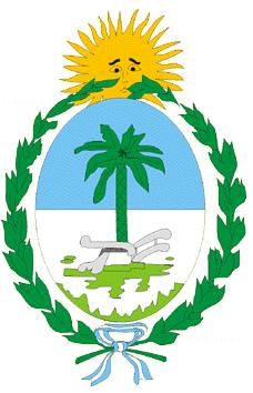 Coat of arms of Chaco Province, Argentina.